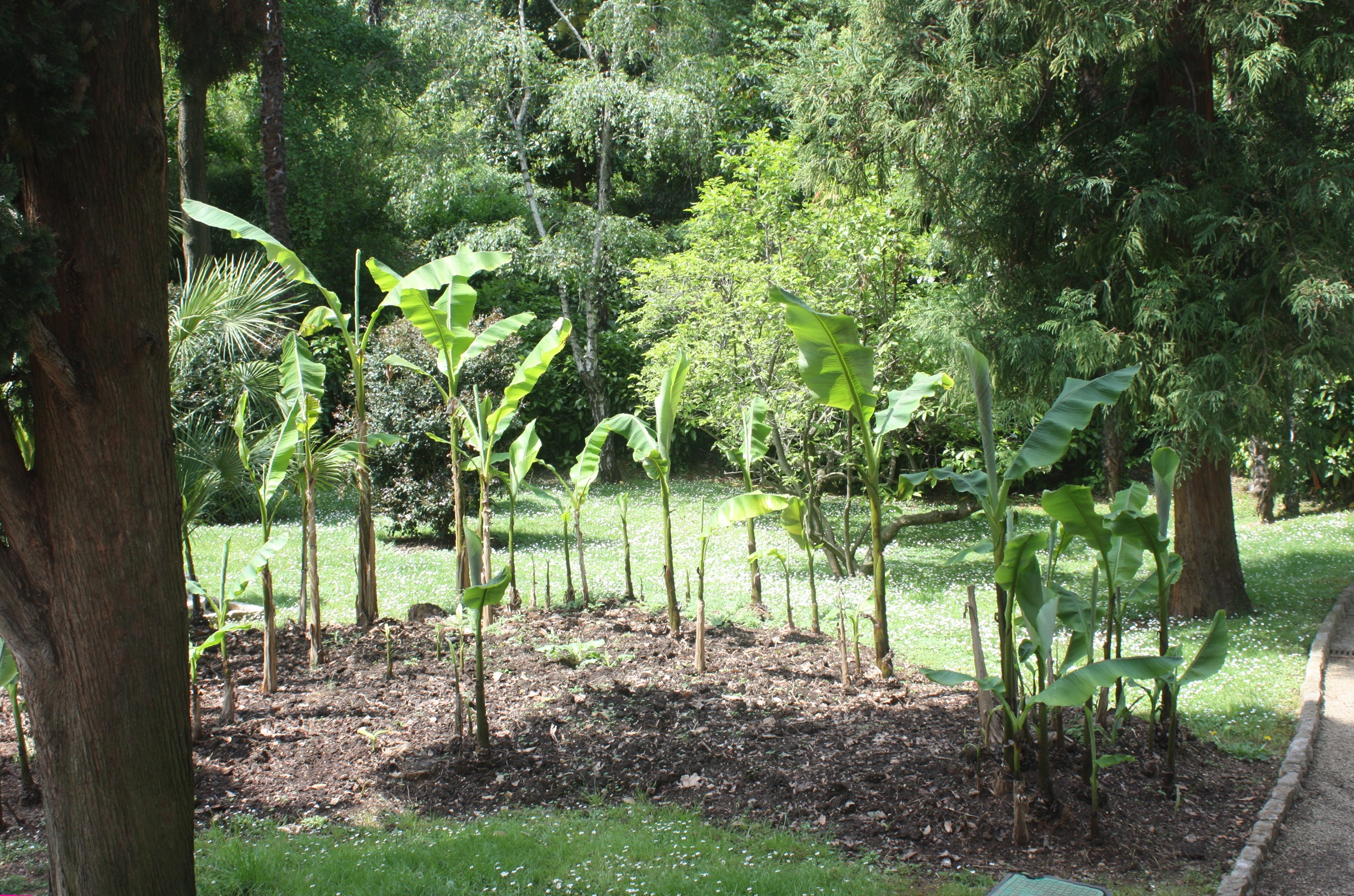 Opatija, Park Angiolina, banana plants